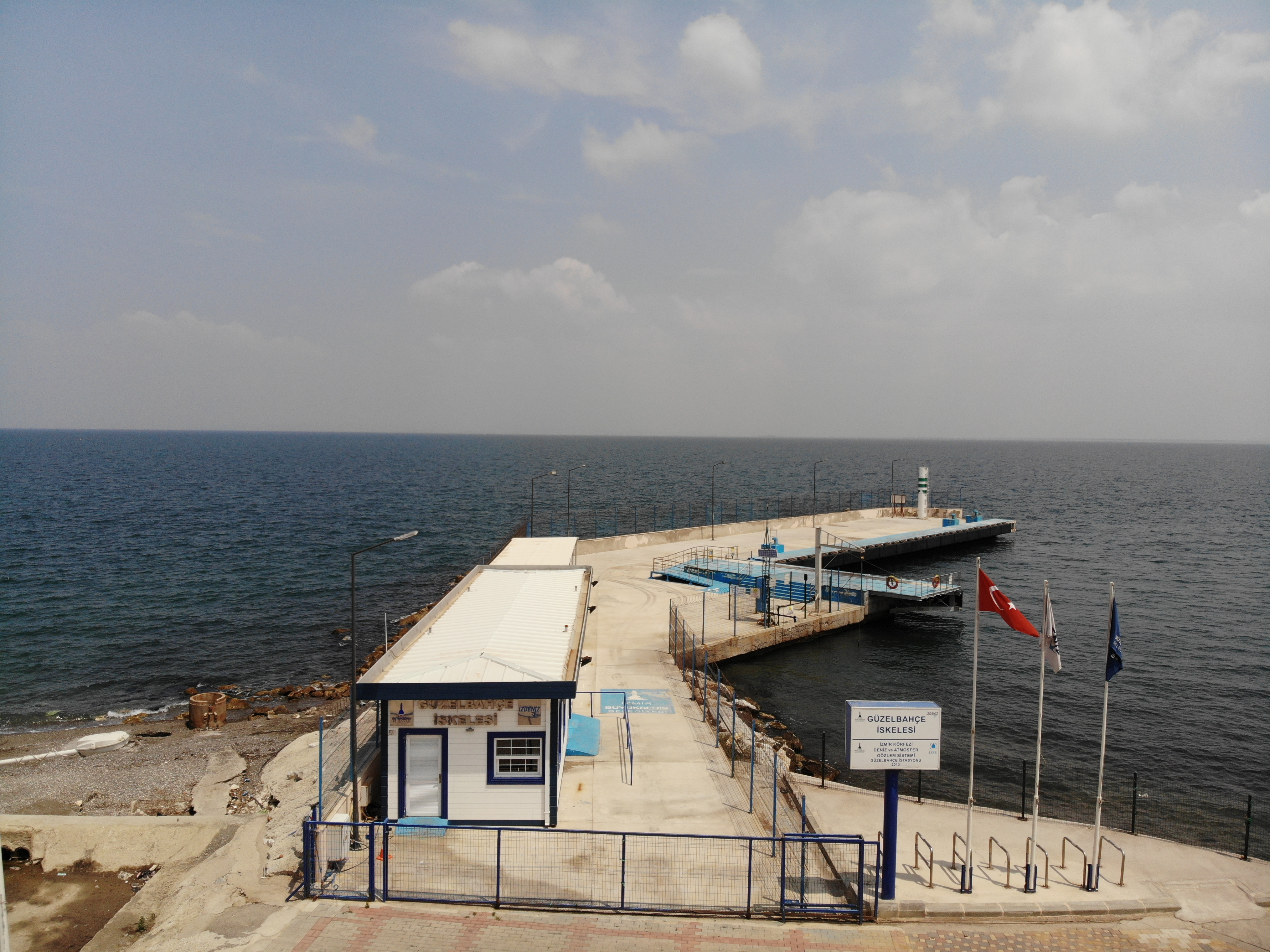 Güzelbahçe Ferry Terminal in İzmir, Turkey.